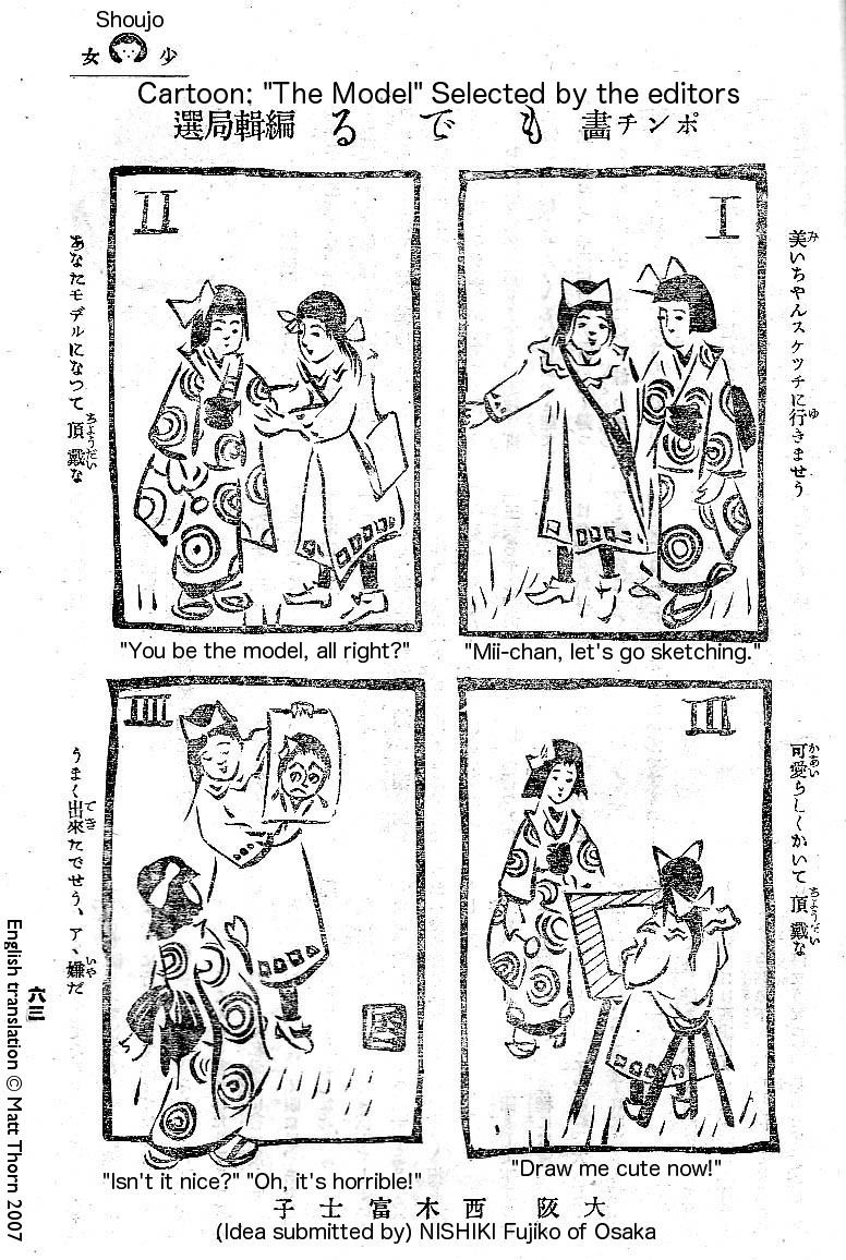 A one-page, four-panel manga from the November 1910 issue of the Japanese girls' magazine Shōjo (少女, "Girl"). The artist is not named, but the caption at the bottom suggests that an in-house artist may have created it based on an idea sent in by a reader. Note the irony, perhaps intended, of the fact that the girl in modern dress and using the English words "sketch" and "model" draws her friend using the traditional and whimsical Henohenomoheji method.